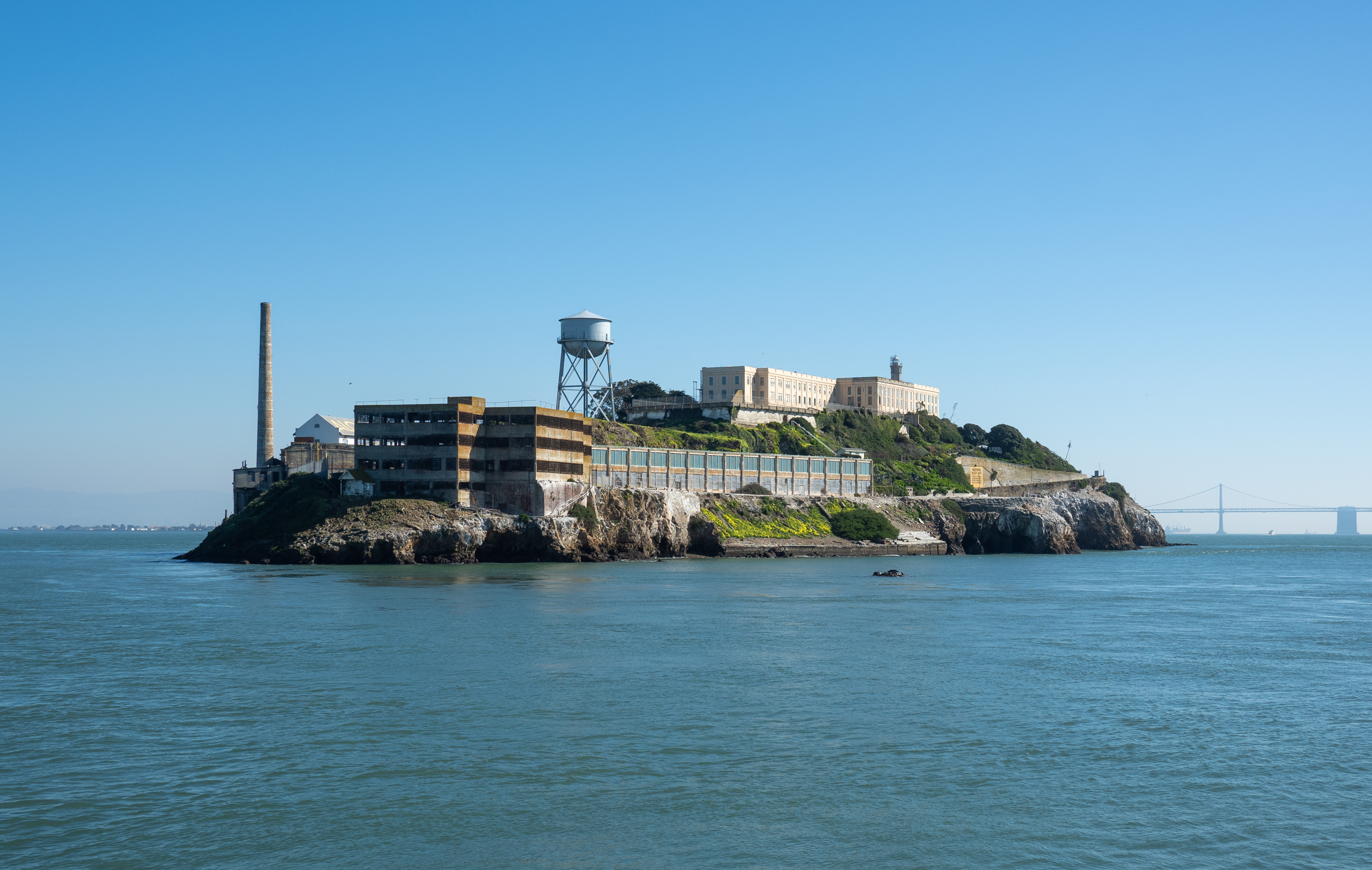 Alcatraz viewed by boat